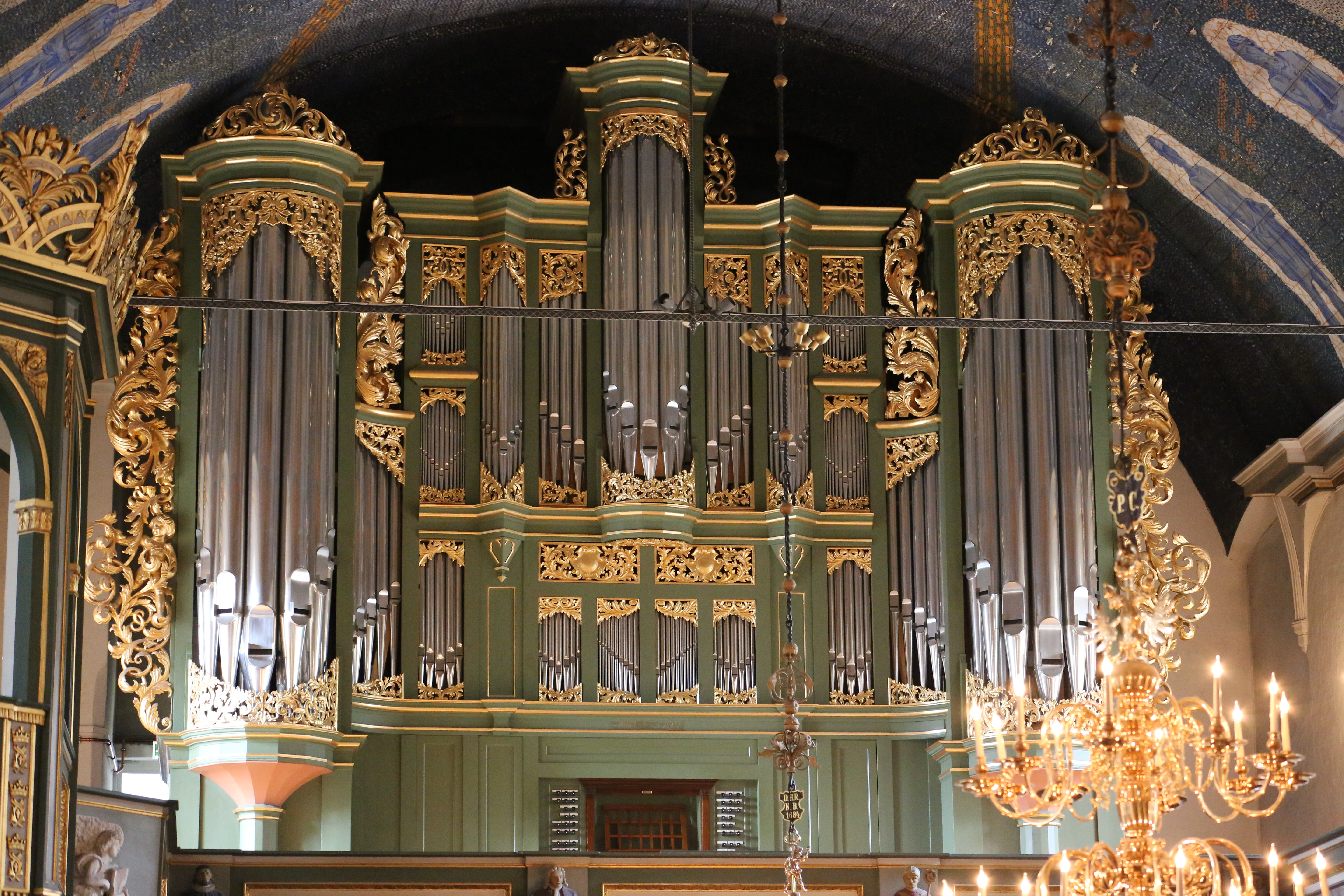 Oslo domkirke (Oslo Cathedral). Organ